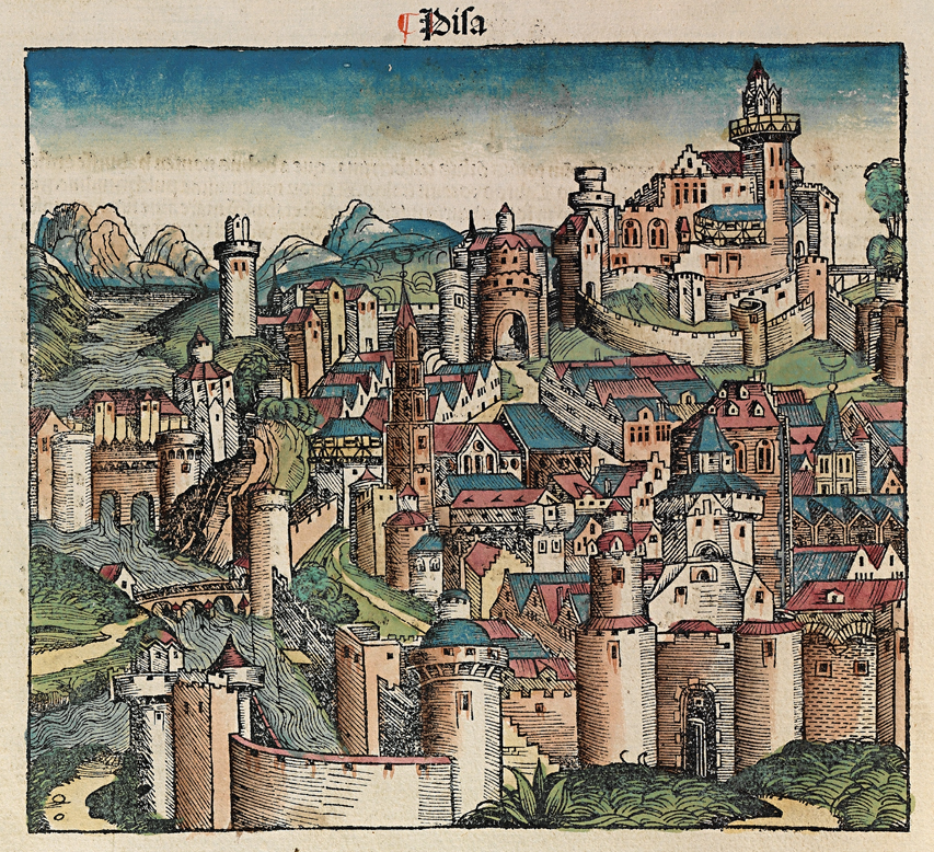 Woodcut from the Nuremberg Chronicle